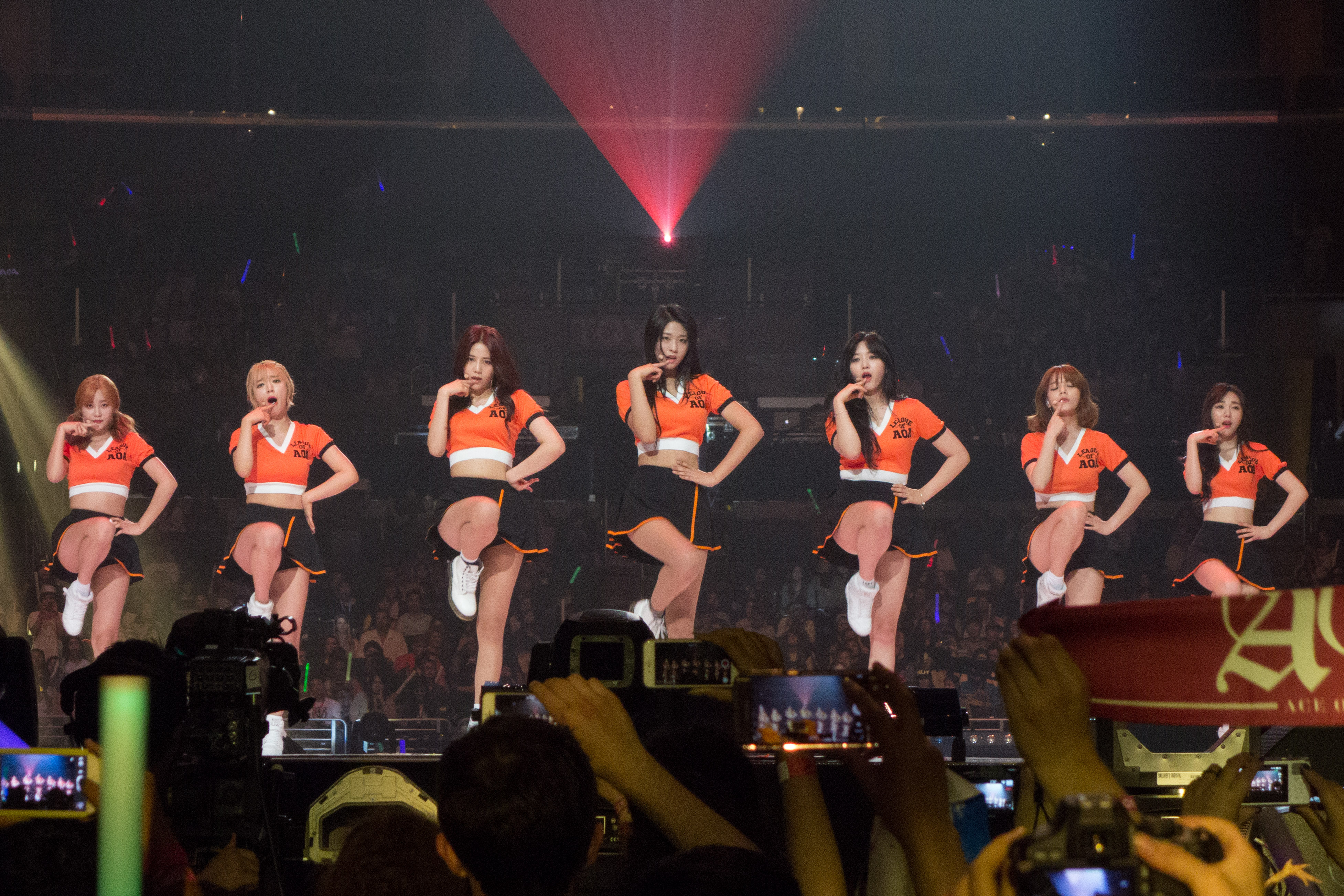 KCON 2015, AOA on stage.